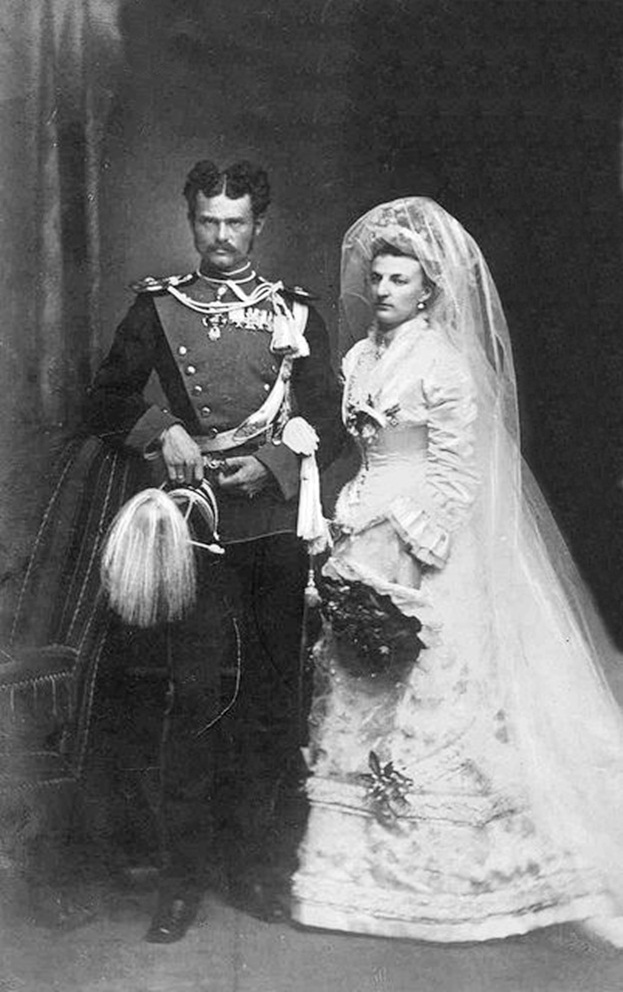 Duke Maximilian Emanuel in Bavaria and Princess Amalie of Saxe-Coburg and Gotha, Wedding, 1875